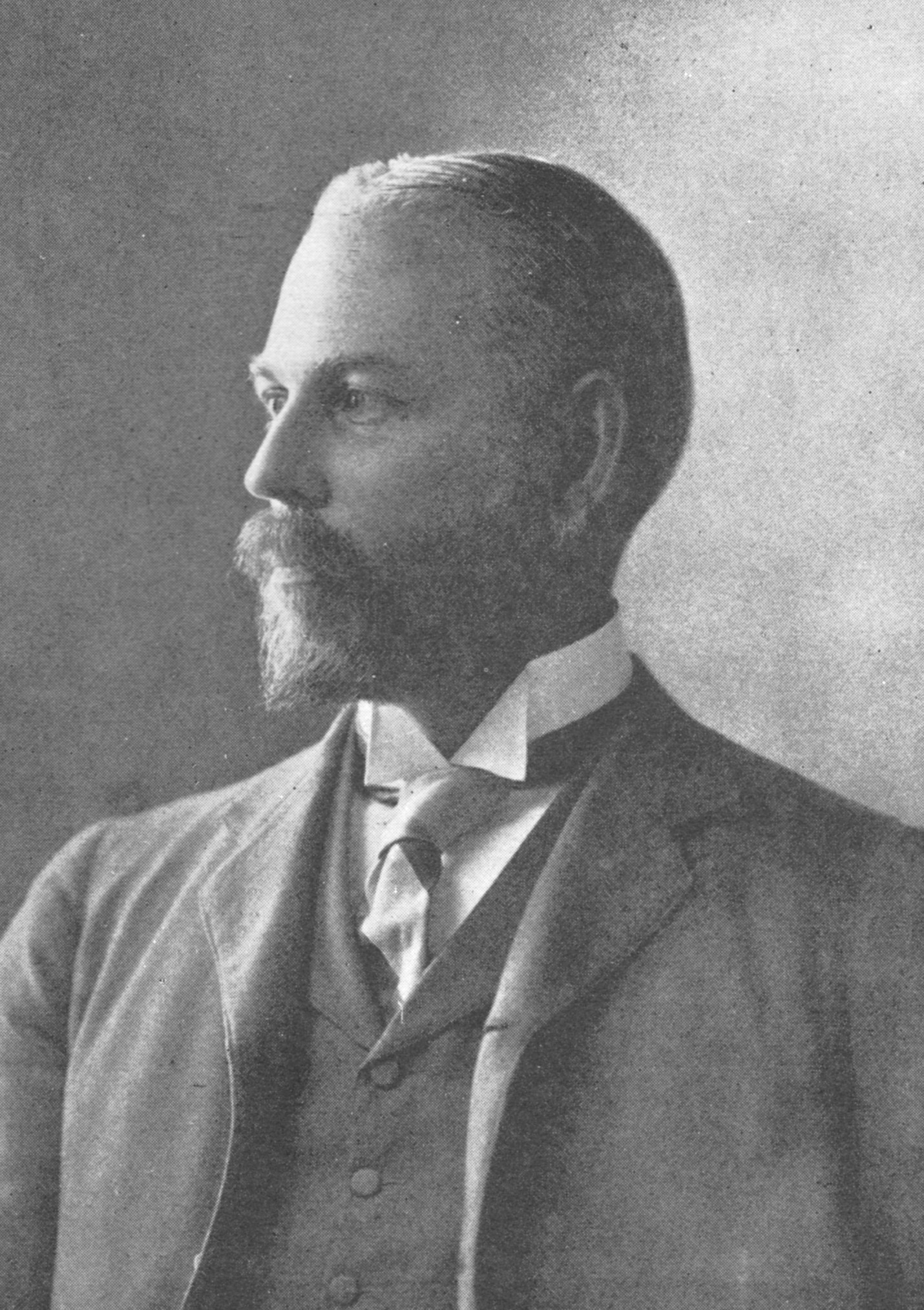 Ernest Fenollosa (1853–1908), American orientalist. About 1890